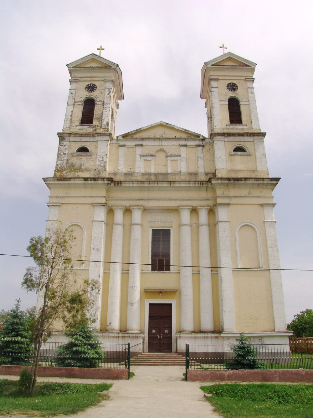 Roman Catholic church of Saint Mary Magdalene in Beoda Српски (ћирилица): Rimokatolička crkve Svete Magdalene u Beodri